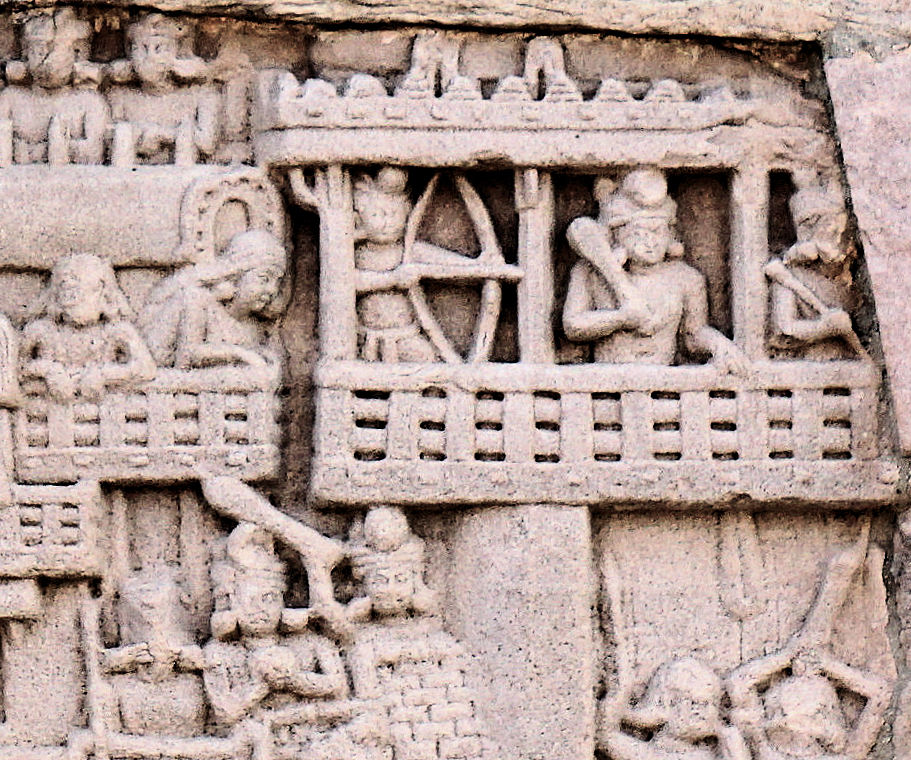 The Mallas defending the city of Kusinagara